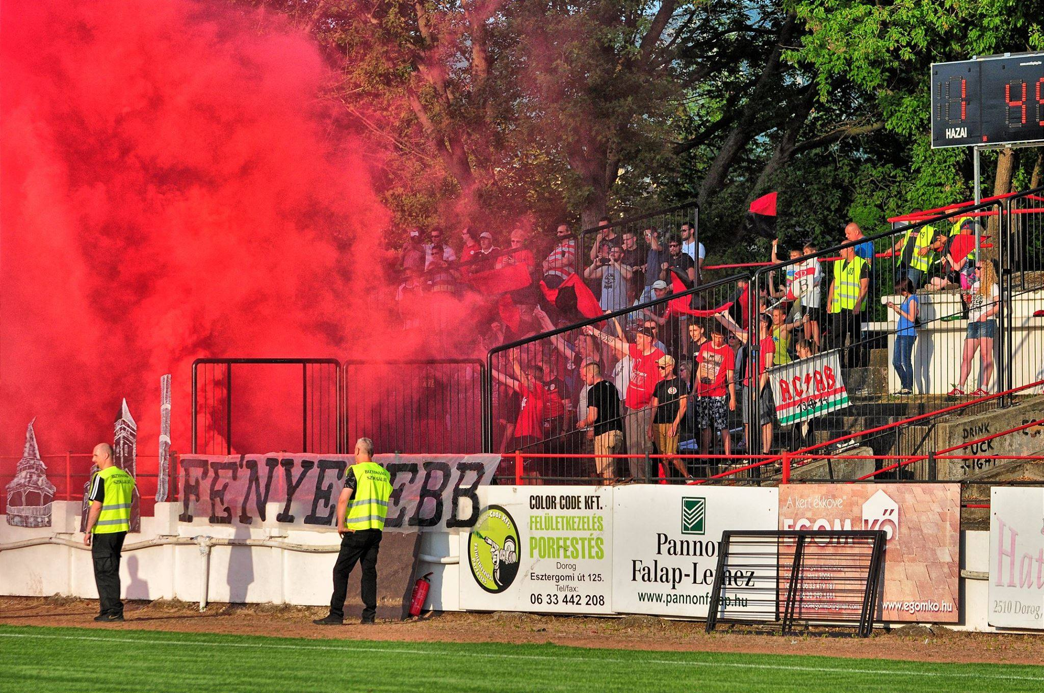 Great voice, nice view and red smoke as support from fans of Dorog to their lovely team